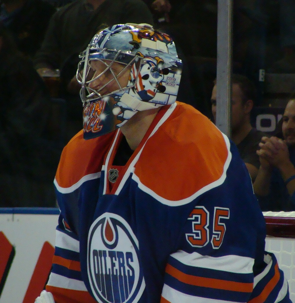 Edmonton Oiler's Goalie #35 KHABIBULIN 2009/10 season Edmonton vs Dallas